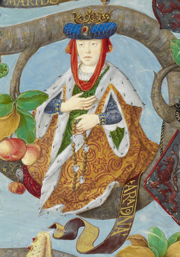 Gaudiosa, queen consort of Asturias by her marriage to King Pelagius, first King of Asturias.